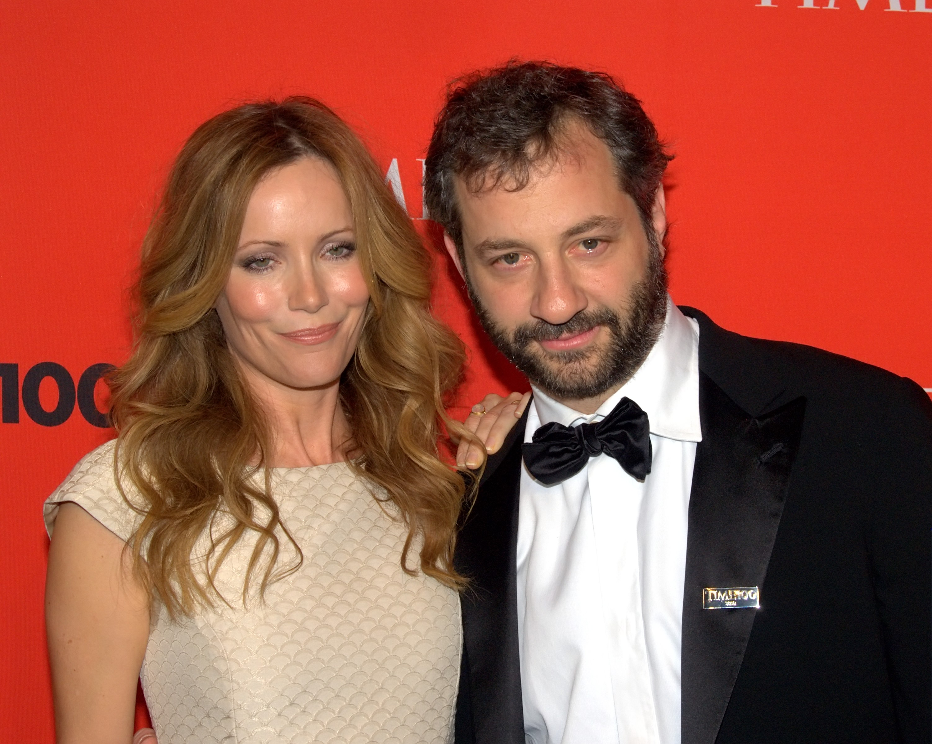 Leslie Mann and Judd Apatow at Time 100 Gala